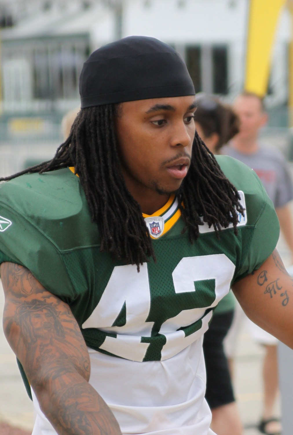 Green Bay packers safety Morgan Burnett heading to preseason training camp, Green Bay Wisconsin, August5, 2011